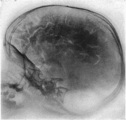 photograph of a roentgenogram of the head after an intraspinous injection of the air (pneumoencephalography procedure). The brain sulci and cisterna are visible.